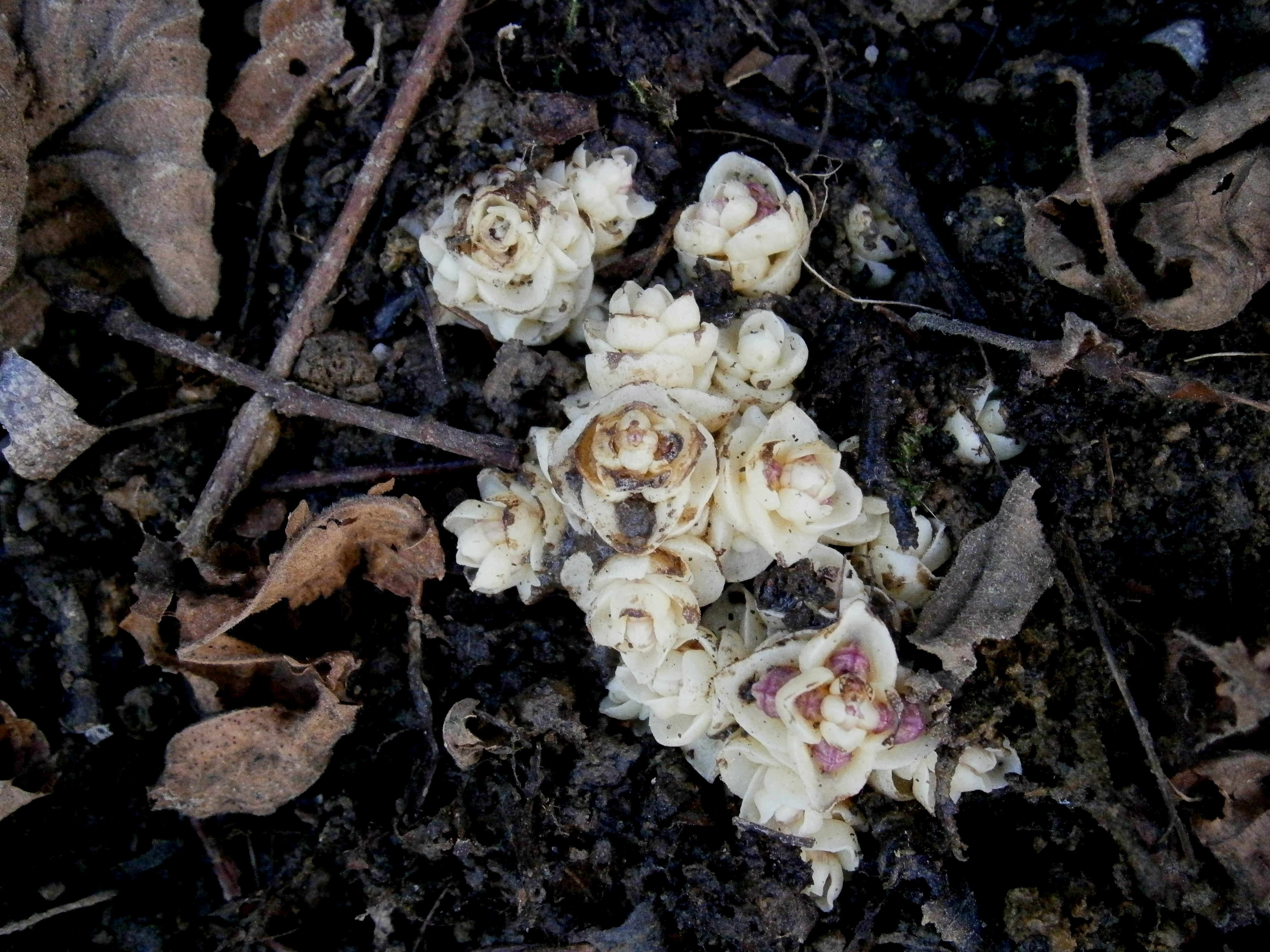 Lathraea clandestina burgeoning